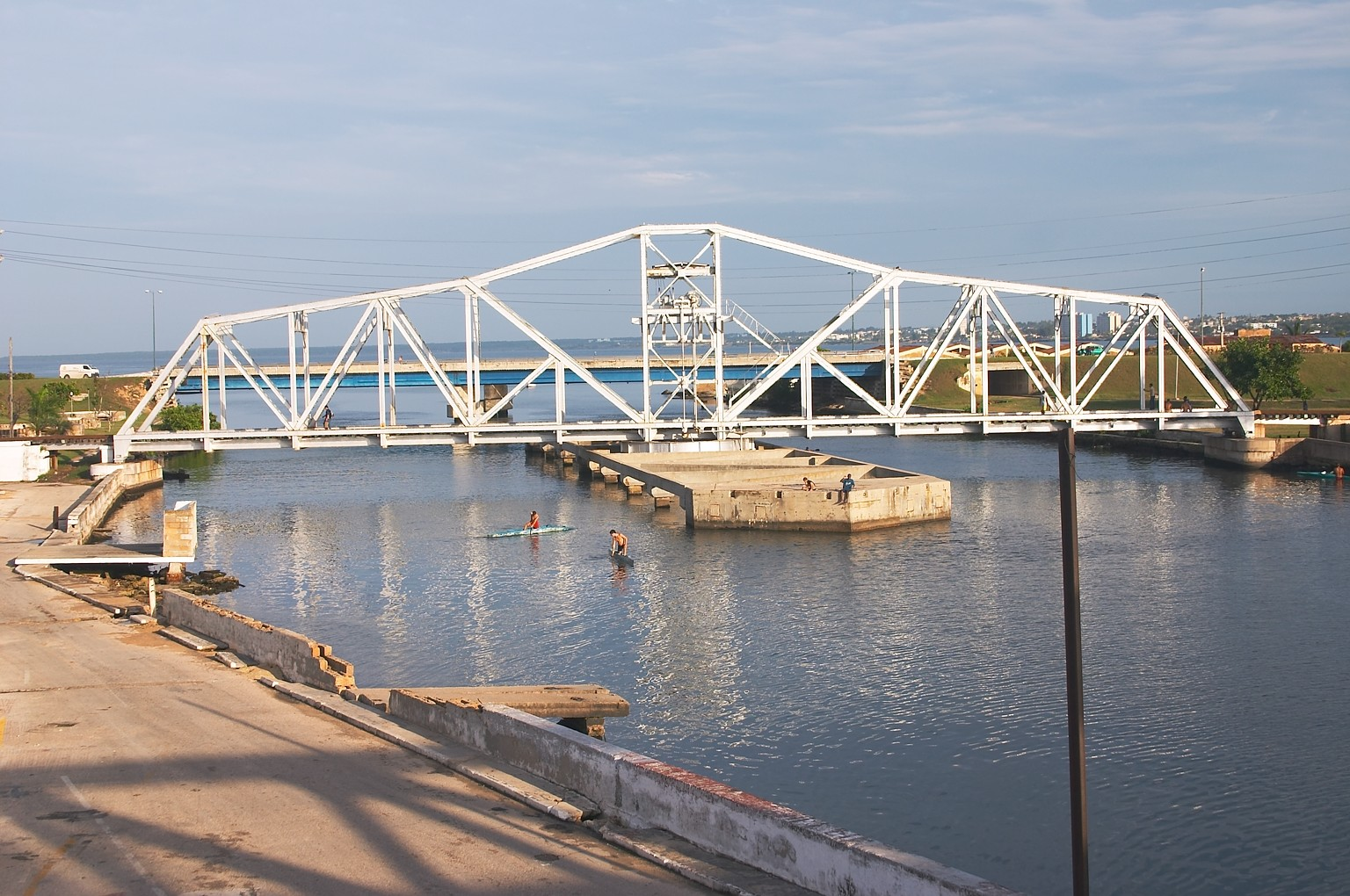 Drawbridge in the Matanzas City